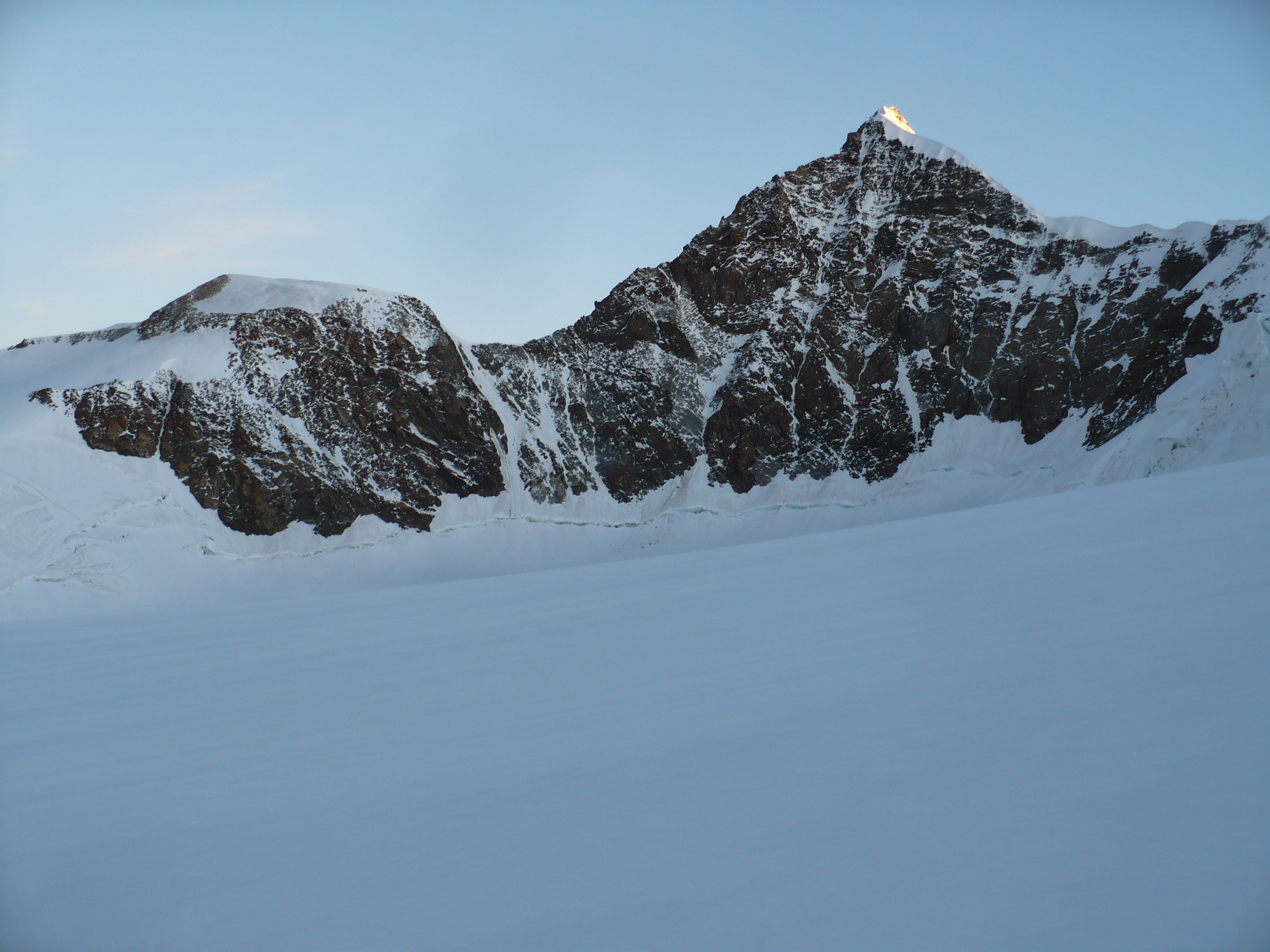 Lyskamm and Naso del Lyskamm from Lys glacier